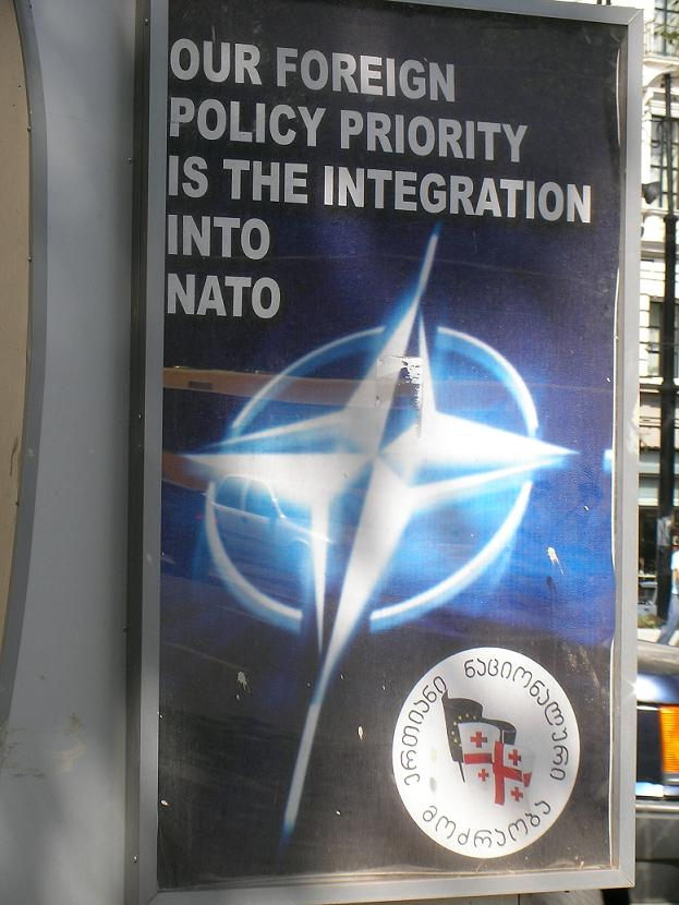 A sign in downtown Tbilisi, capital of Georgia, with the logo of the governing political party, the United National Movement, in the lower right